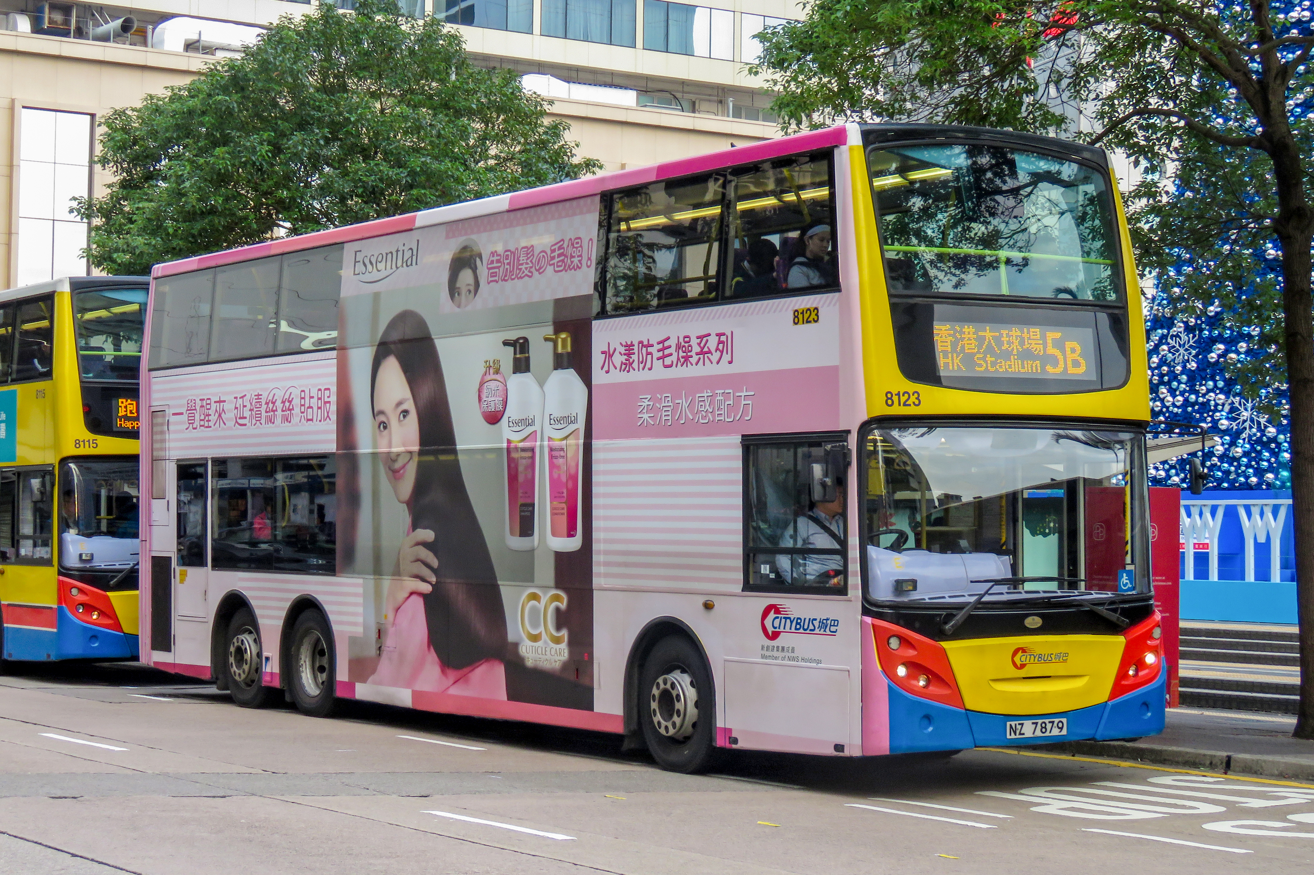 NZ7879... yes, Air New Zealand has several 787-9s. This advertisement is about Kao Essential shampoo.